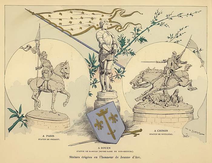 Joan of Arc